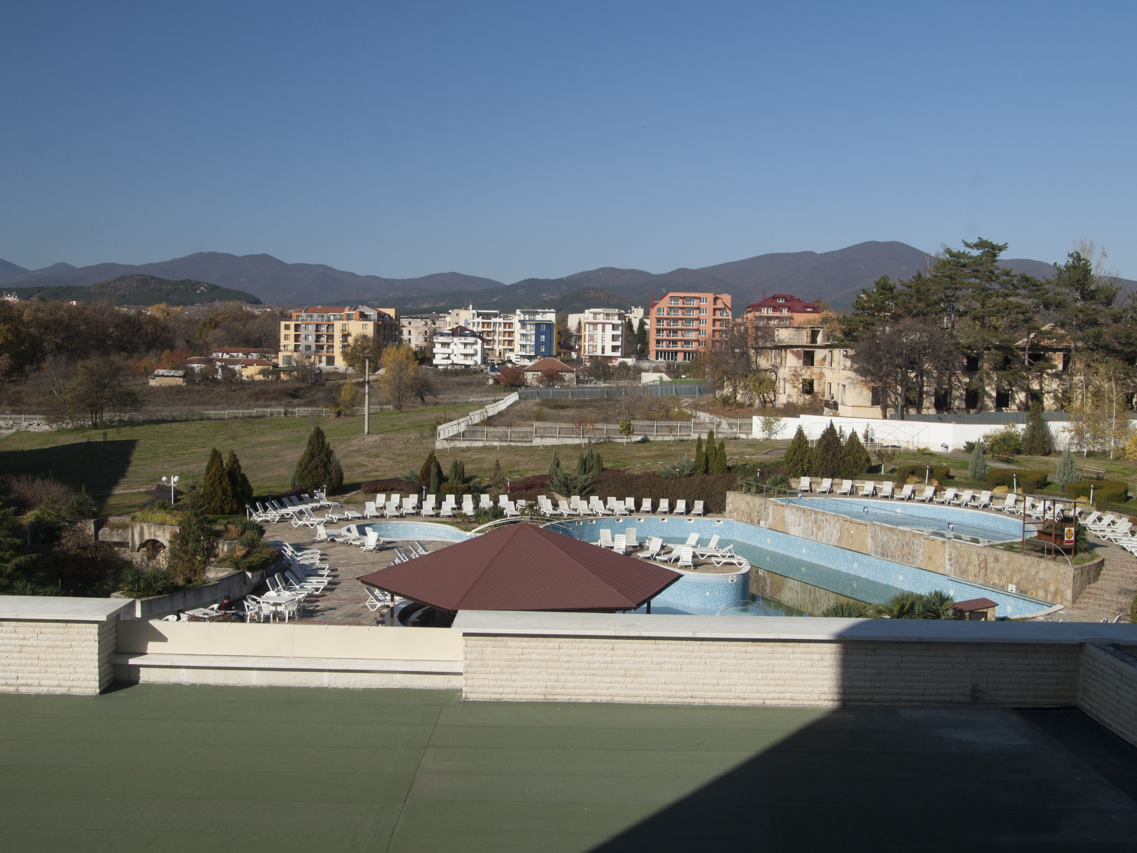 A view on a new district of Hisarya, Bulgaria